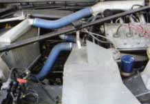 The engine pit of the 205 T16